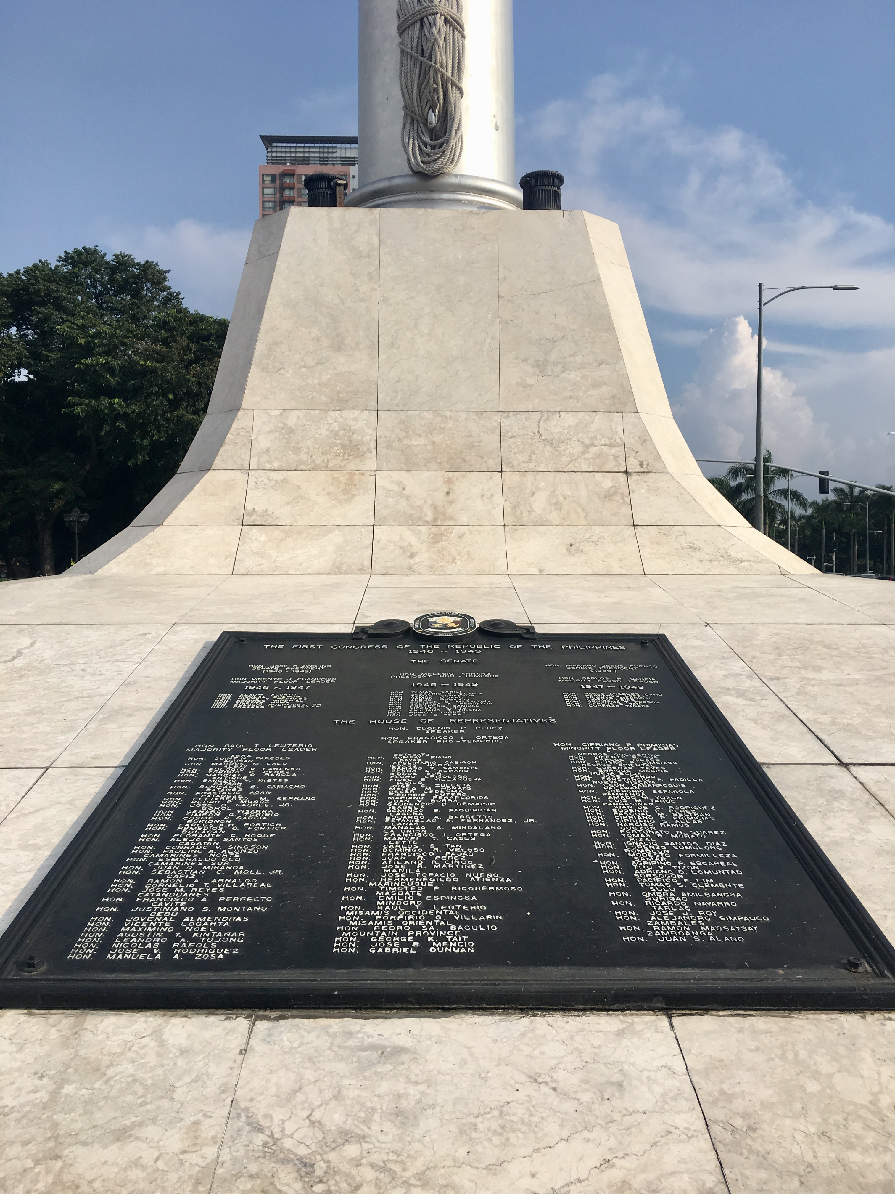 Independence Flagpole